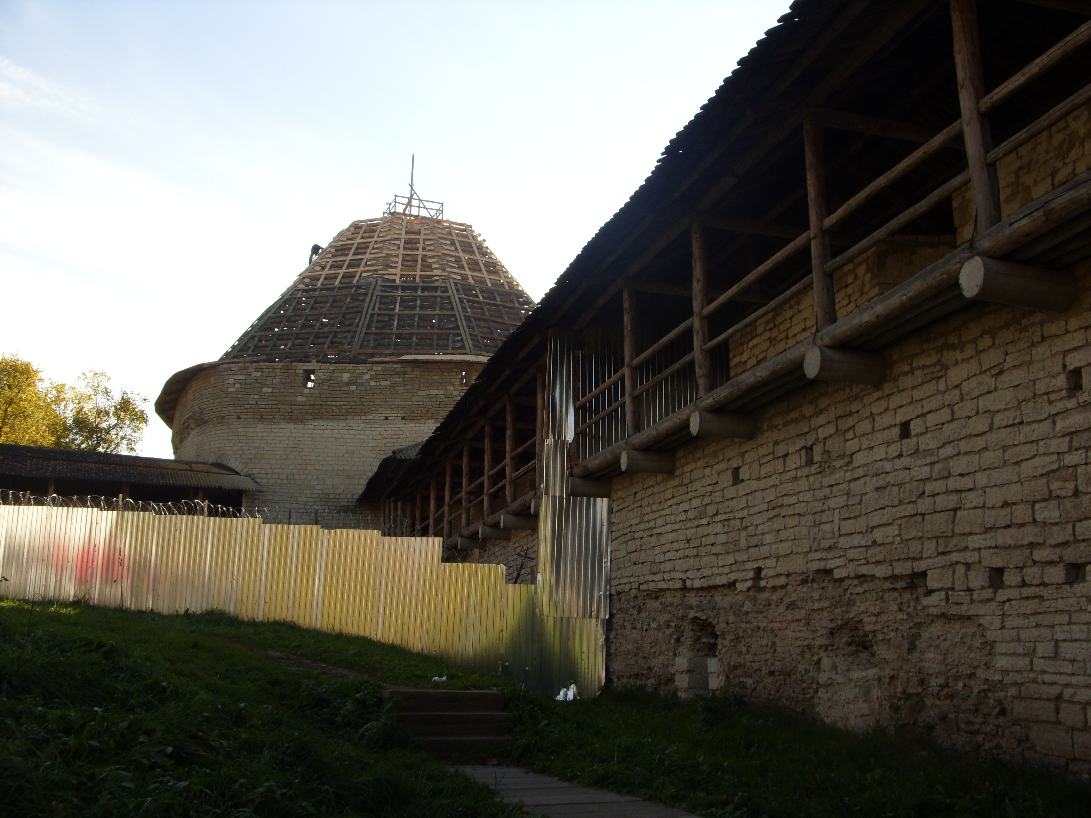 Покровская башня_окт2010